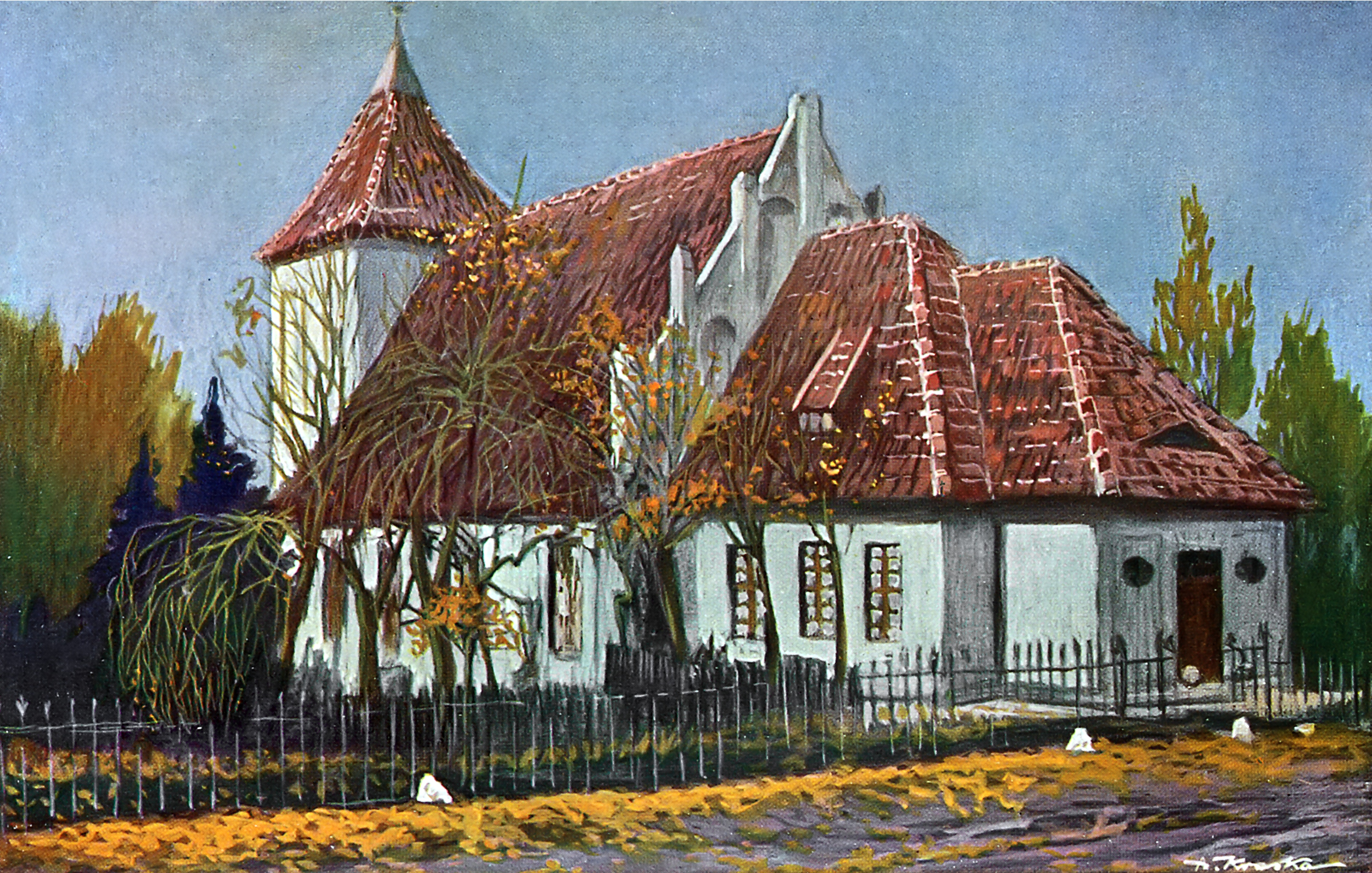 Church of John the Baptist in Narzym, Poland